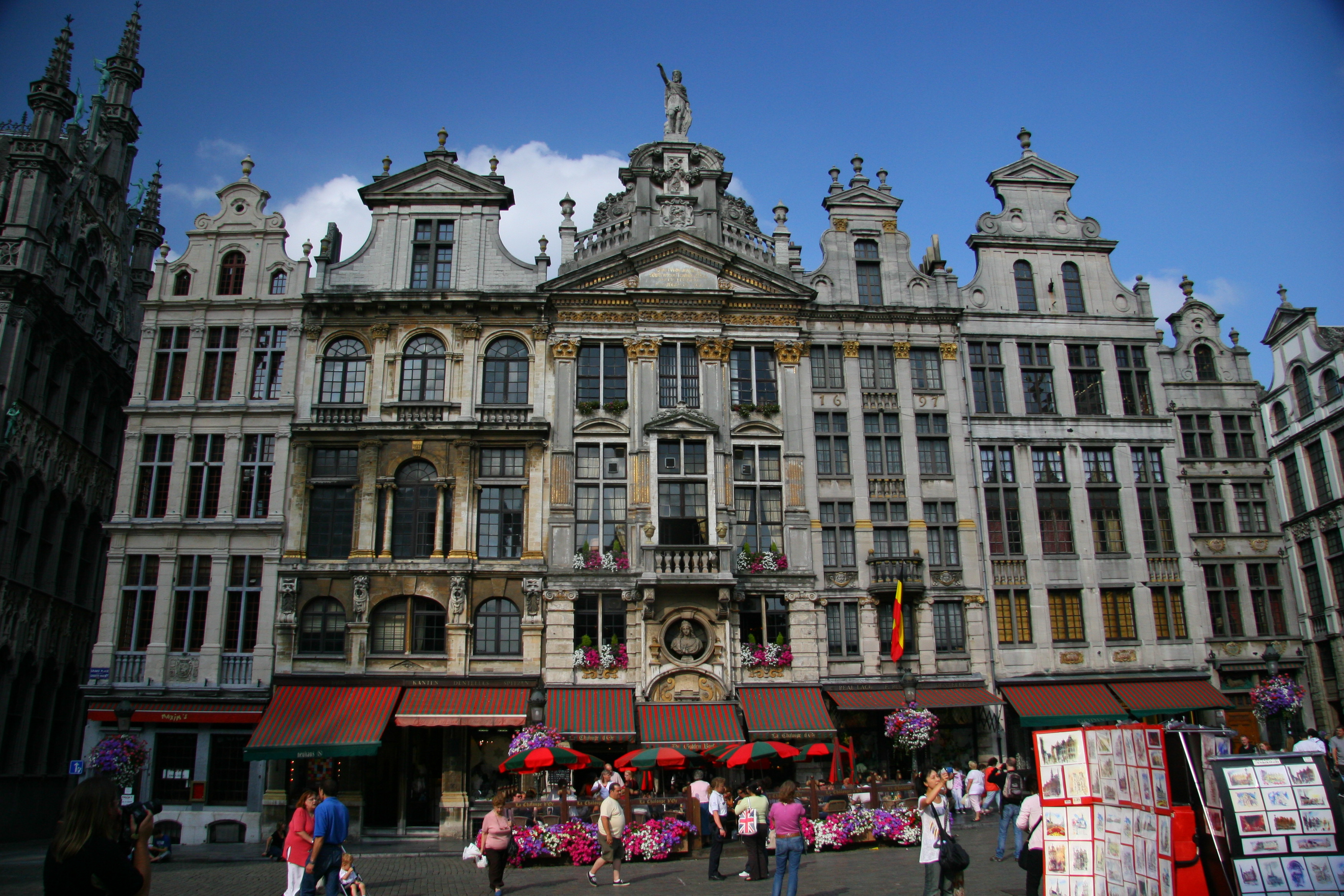 The north-east side of the Grand Place in Brussels, Belgium. The houses from left: "Le Cerf volant", "Joseph et Anne", "L'Ange", "La Chaloupe d'or", "Le Pigeon", "Le Marchand d'Or"